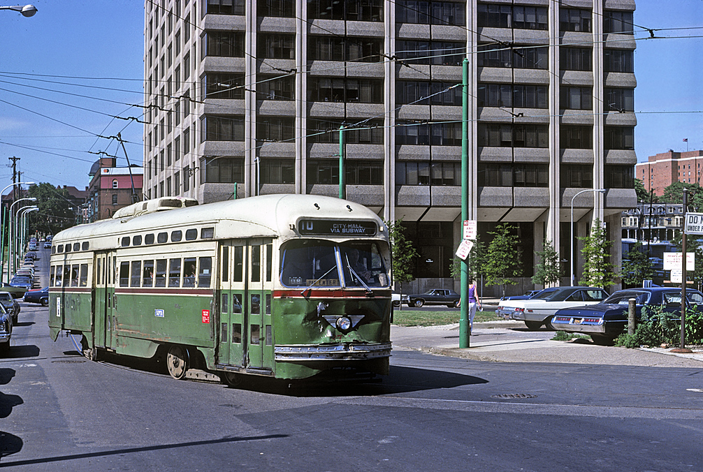 An unknown member of SEPTA 2700-series PCC cars in #10 line service, turning into the 36th Street entrance to the downtown trolley subway, May 1976